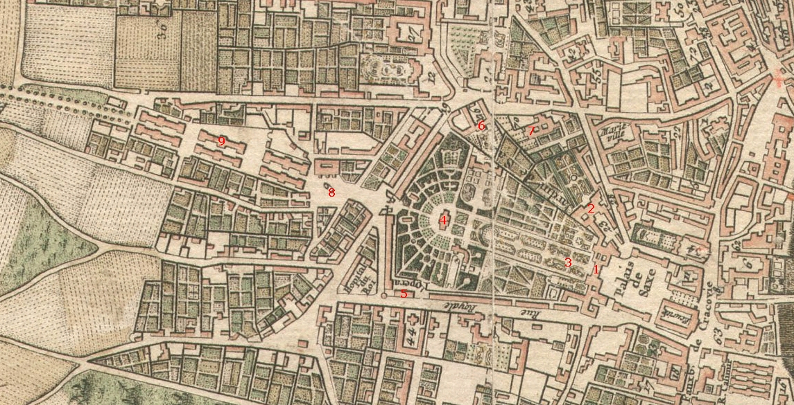 The Saxon Axis in Warsaw. Features: 1. Saxon Palace. 2. Brühl Palace. 3. Garden sculptures. 4. The Great Salon. 5. Operalnia. 6. The Blue Palace. 7. The Church of St. Anthony of Padua. 8. The Iron Gate Square. 9. Mounted Crown Guards barracks.